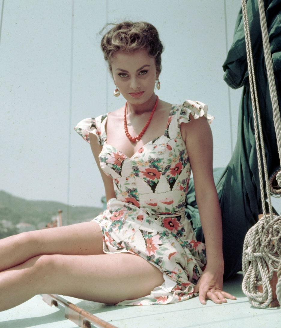 21 years old, around the time she made "Pane, amore e..."